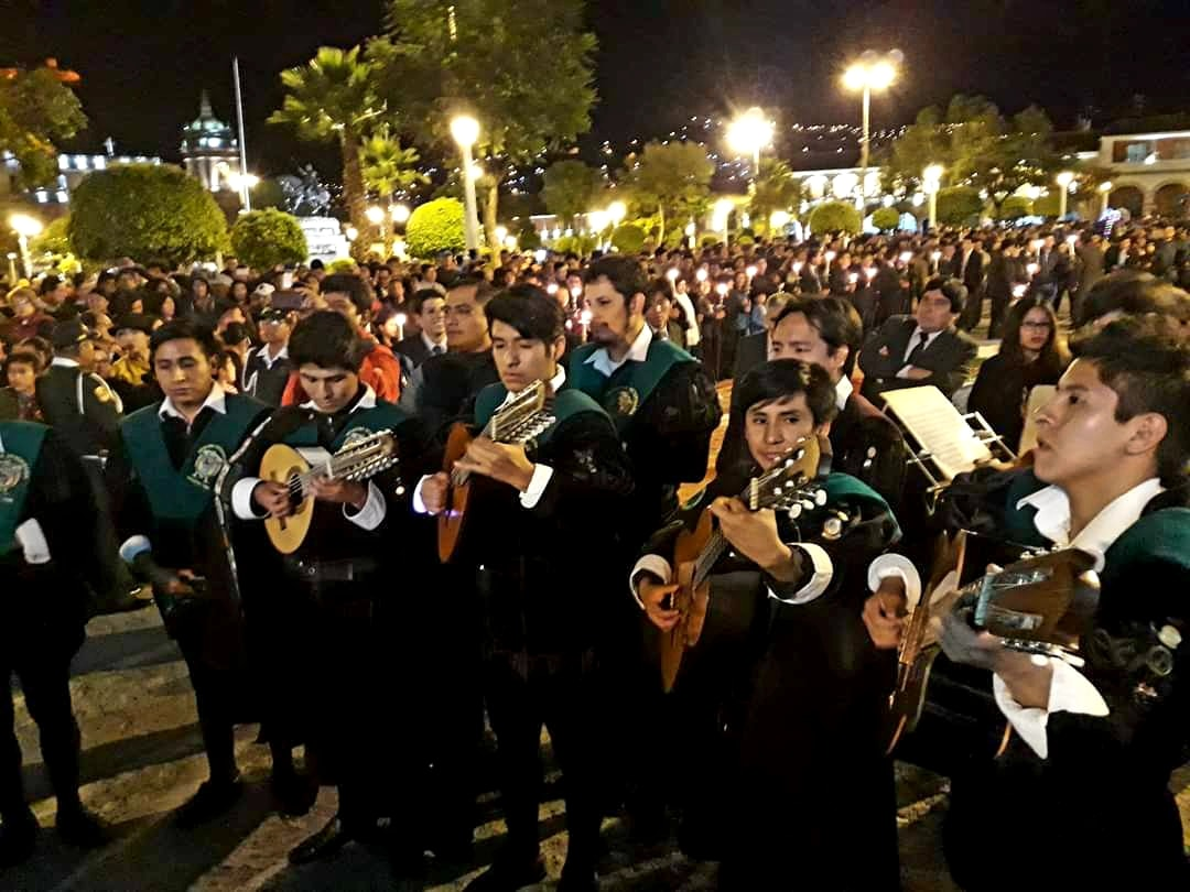 Senor Huerto Ayacucho